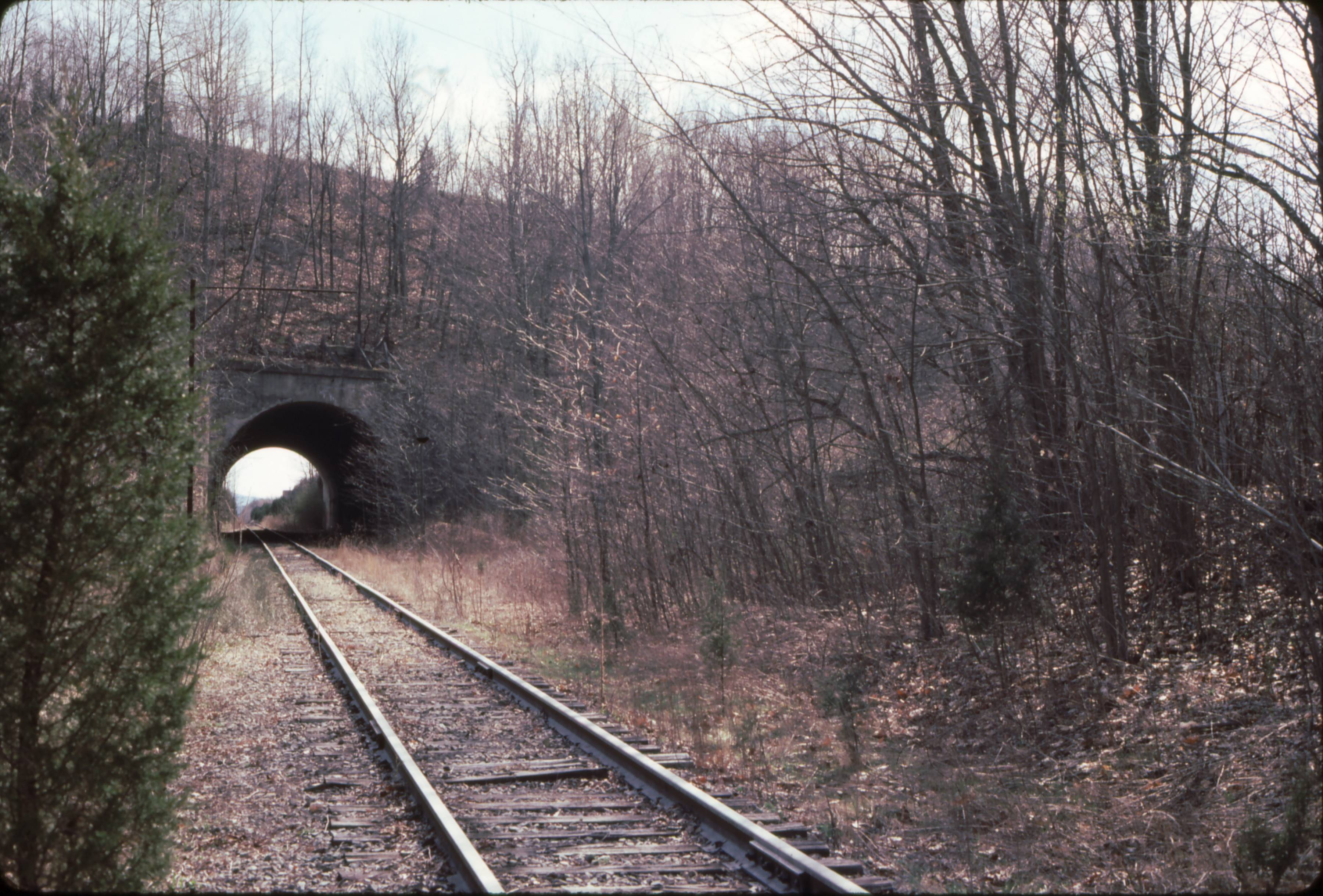 Delaware, Lackawanna and Western Railroad bridge crossing over the Lehigh and Hudson River Railway near Tranquility, New Jersey.